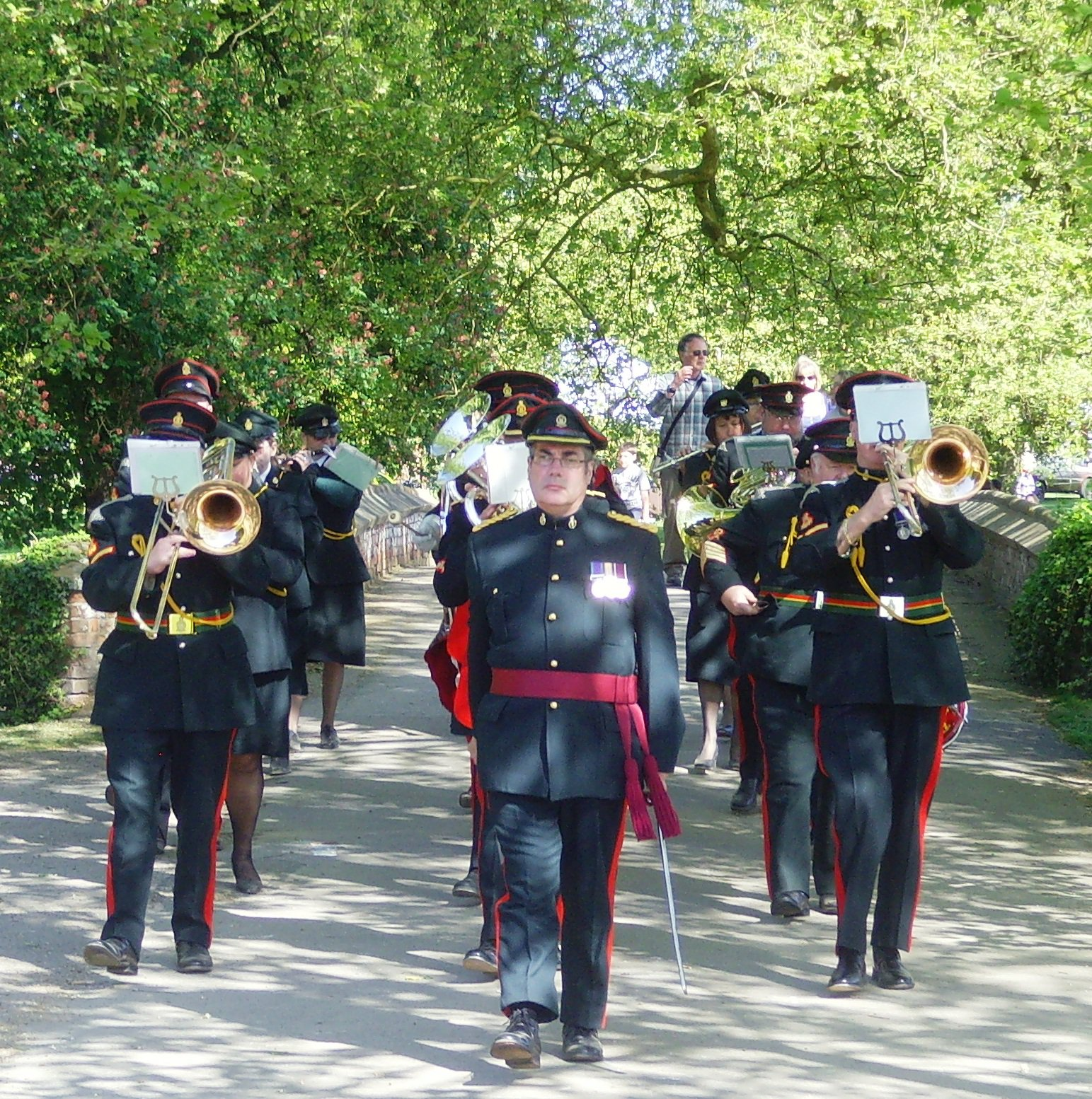 The Essex Yeomanry Band - Parading at Audley End House, Essex, England